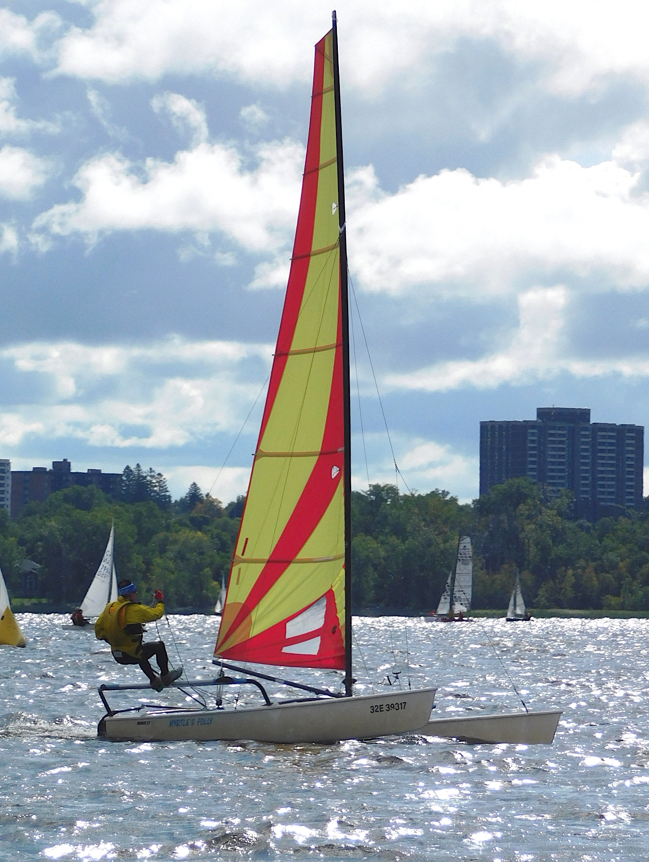 A Hobie 17 catamaran sailboat named Myrtle's Folly.